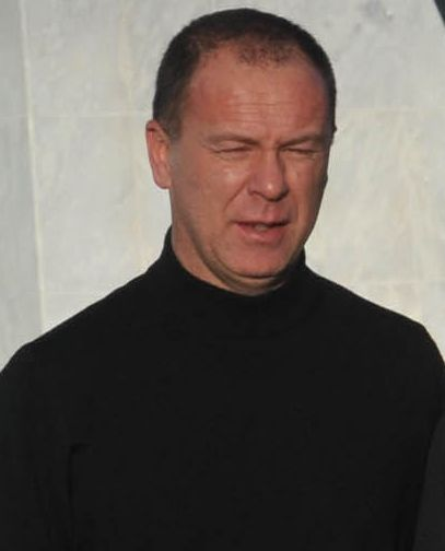 The Brazilian soccer coach Mano (Luis Antonio Venker) Menezes, presently at Corinthians Paulista